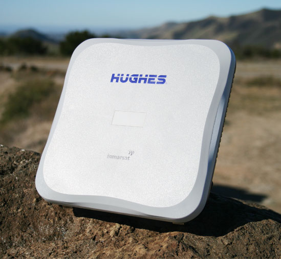 BGAN Termianls, such as this Hughes 9202, can connect to the Internet from anywhere on the globe.